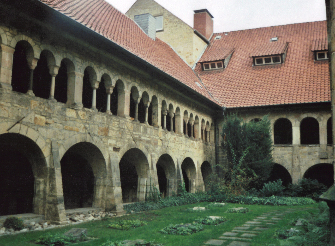 Cathedral of Hildesheim, closter (built 1060-1070).